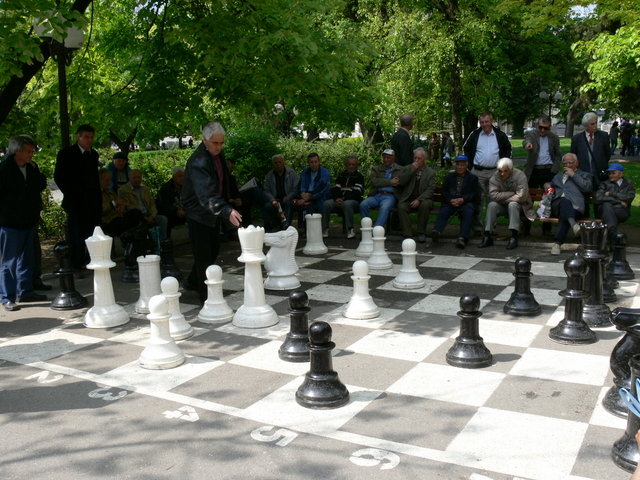 gradskata gradina Stara Zagora